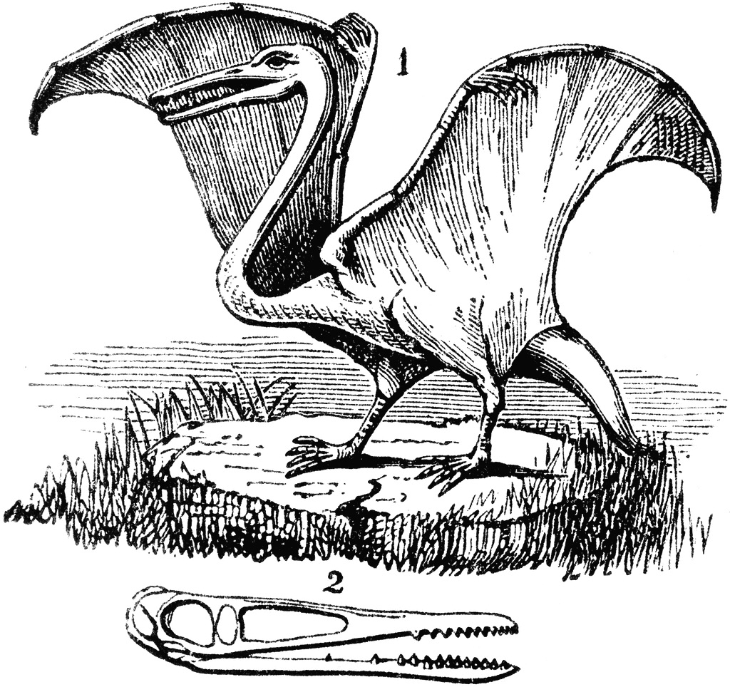 Pterodactylus illustration from International Reference Library (International Press, 1911).